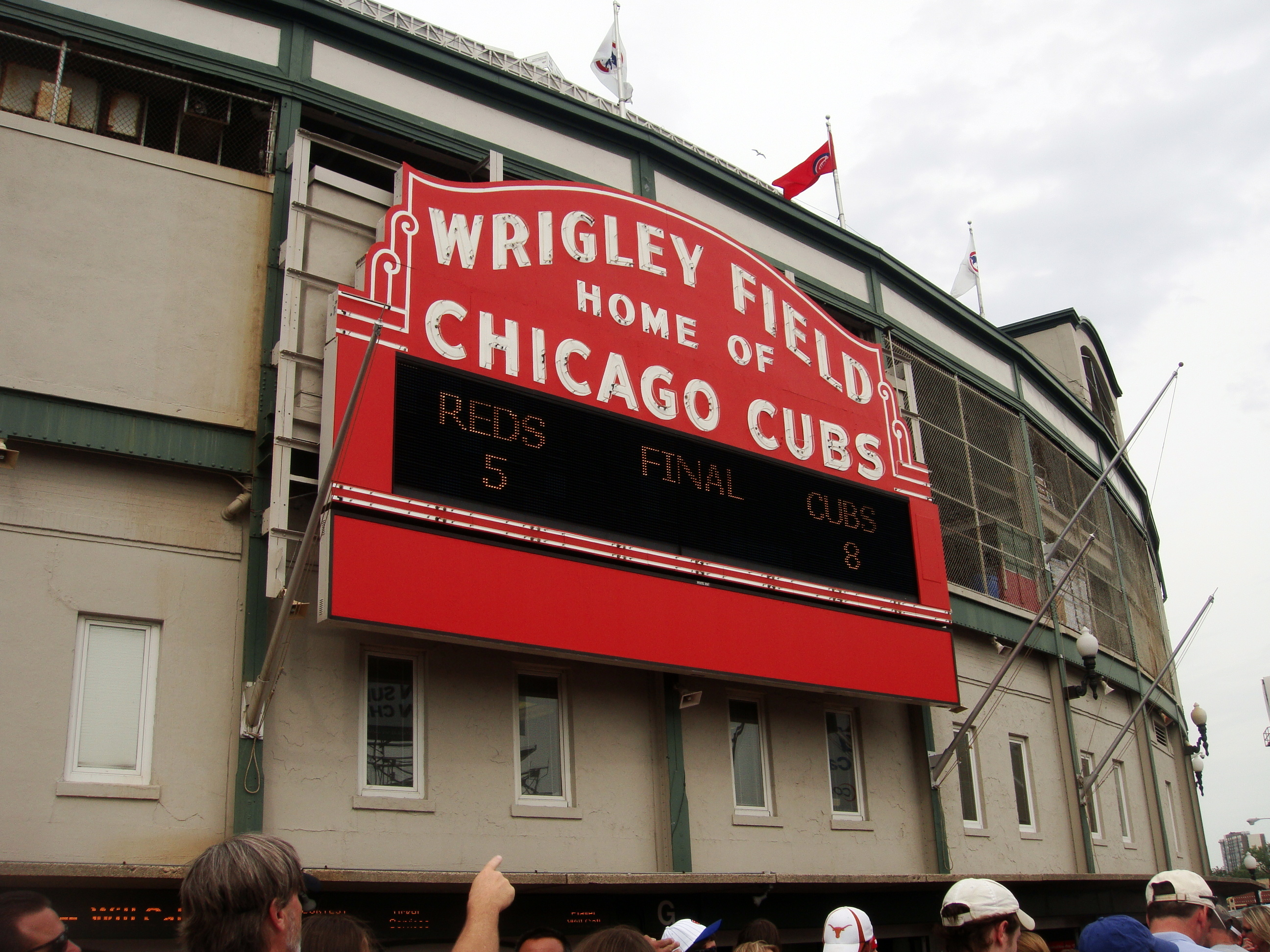 Sign on the outside of Wrigley Field